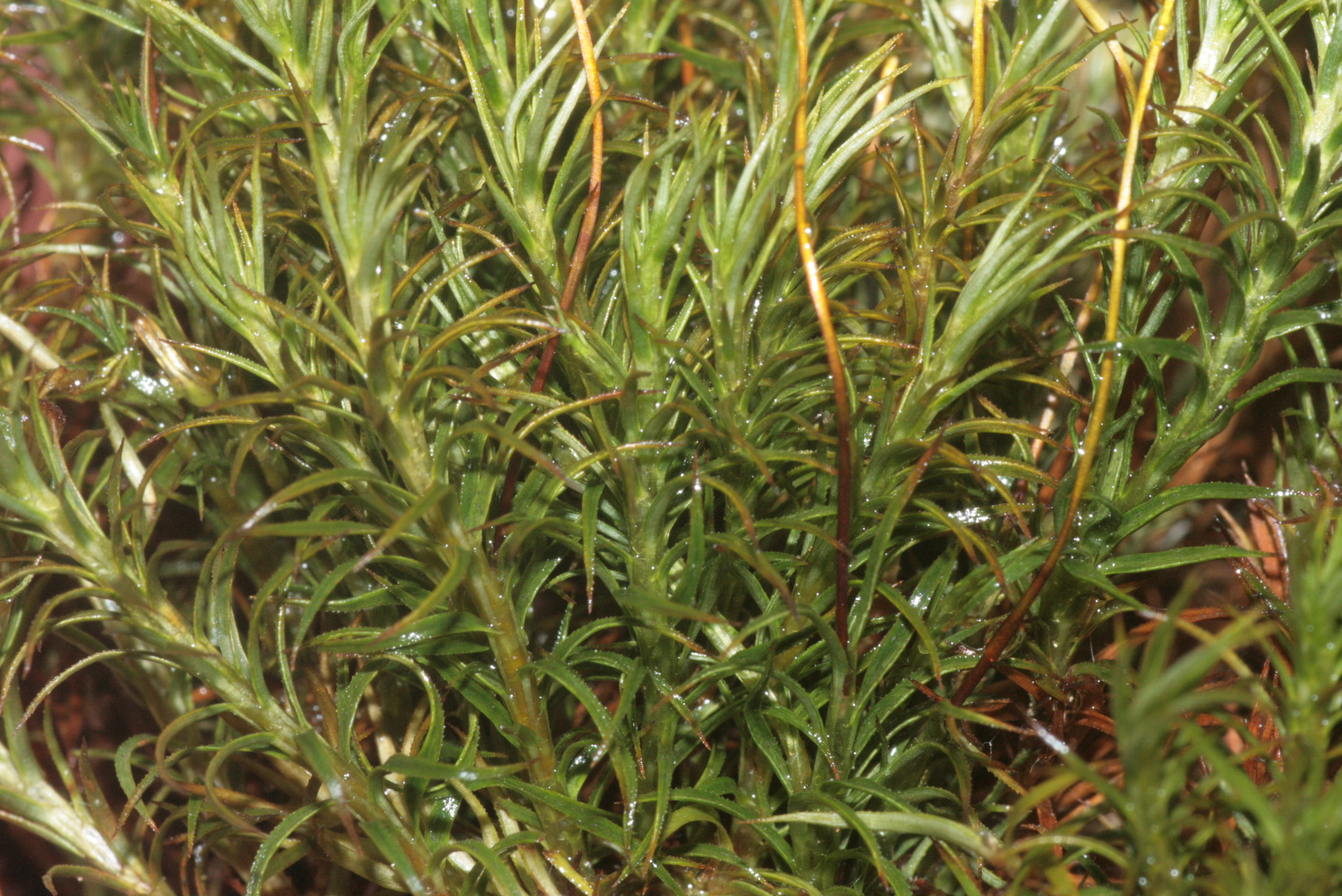 Polytrichum alpinum